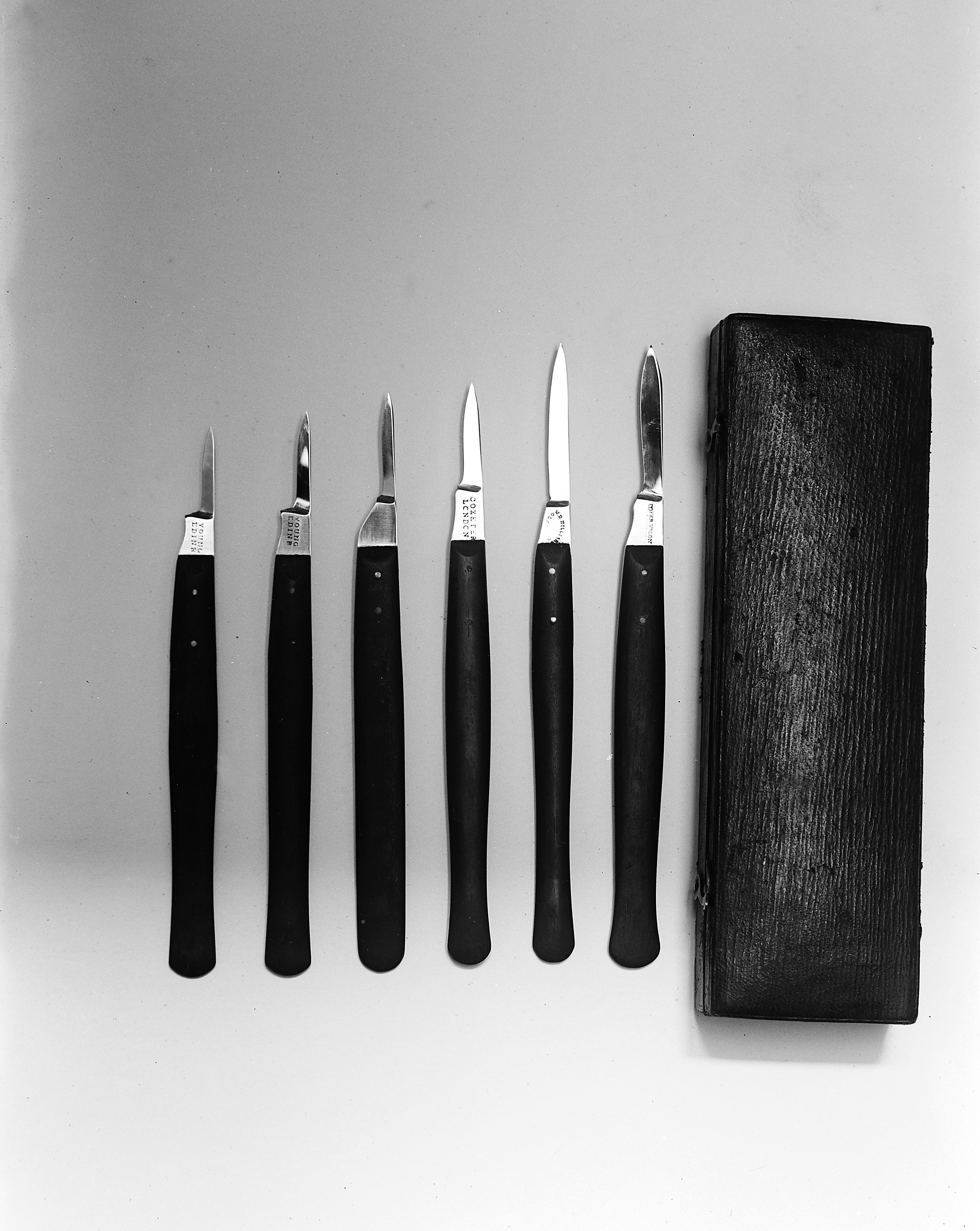 Six scalpels and a case, used by Lister. Wellcome Images Keywords: Joseph Lister; Surgical Instruments